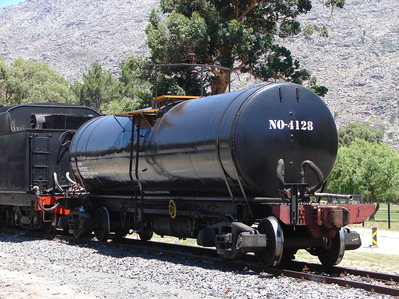 Type X-20 auxiliary water tank no. 30 025 052, originally paired with Class GMA Garratt no. 4128, now used by the Ceres Rail Company Location: Ceres, Western Cape